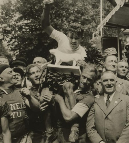 Dutch racing cyclist Pellenaars, world amateur individual road race champion at the age of 18. 1934.